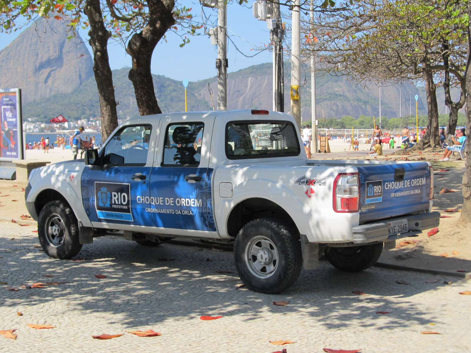 Top Notch Rio de Janeiro Security